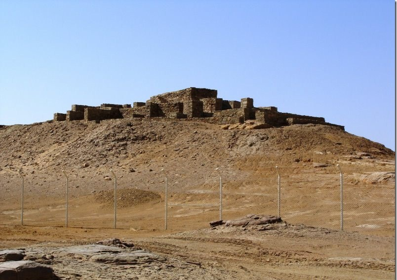 من القطع والمواقع الاثرية لحضارات تيماء